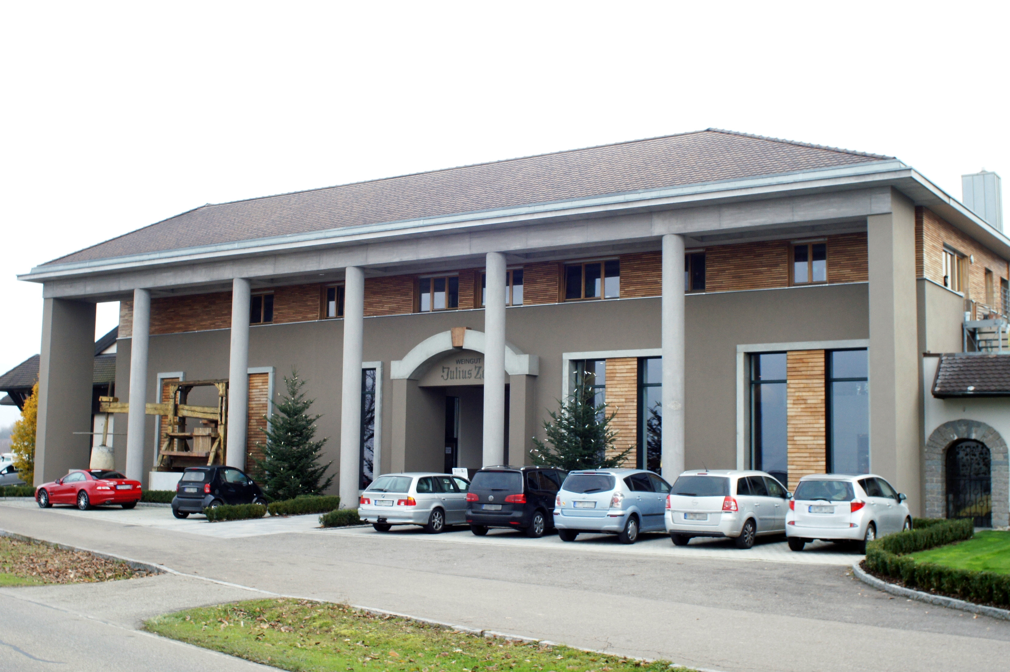 Winery Julius Zotz in Heitersheim/Germany Front view